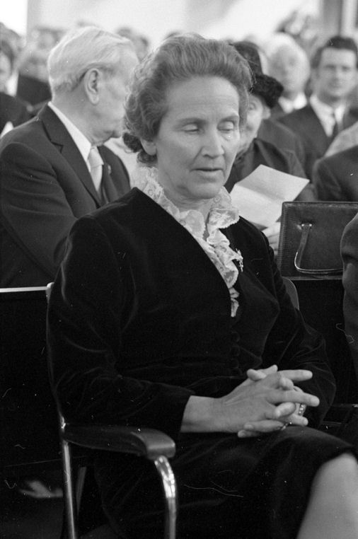 Information added by Wikimedia users.